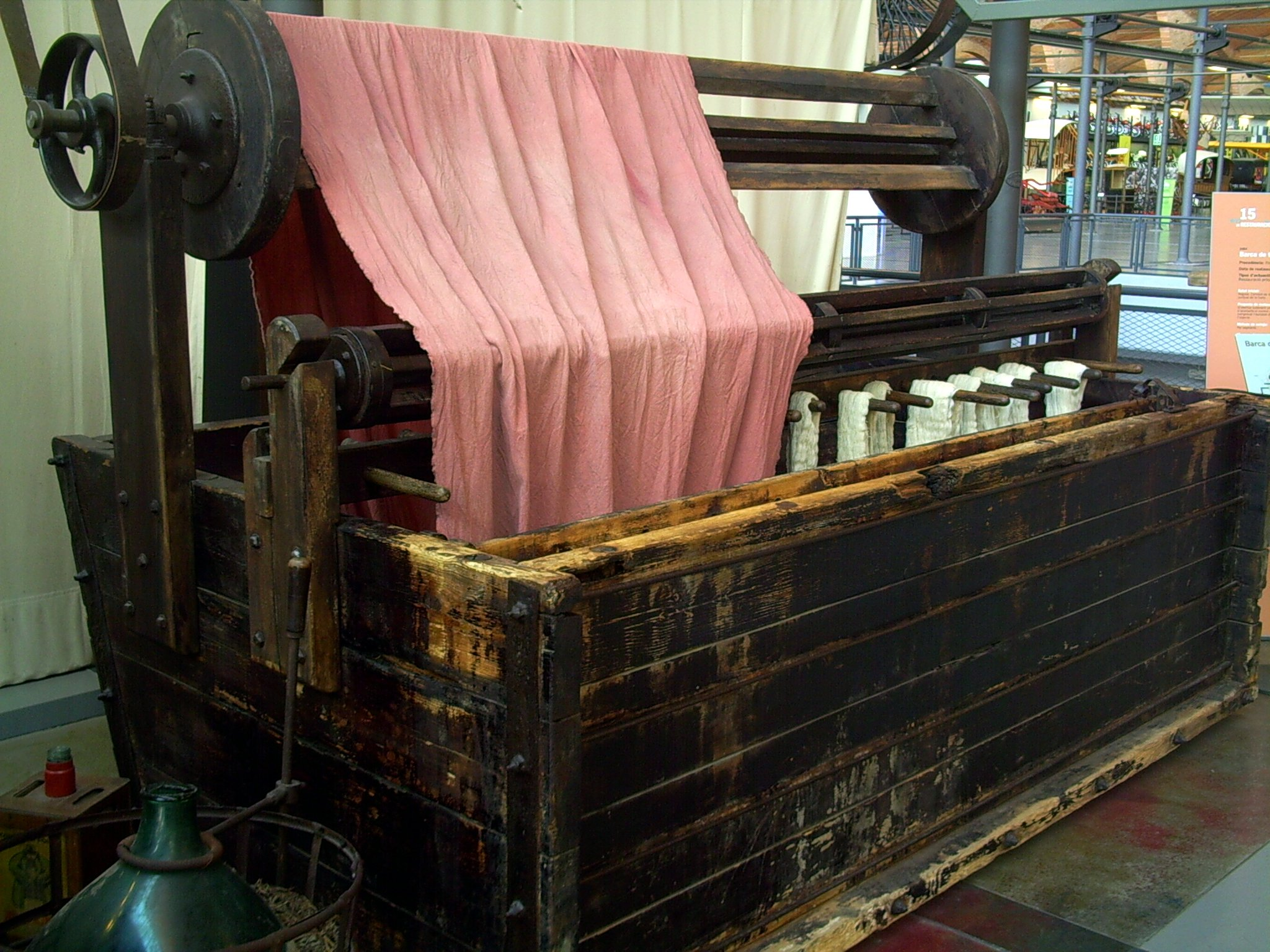 Boat of dye, at the mNATECT, Terrassa, (Catalunya).